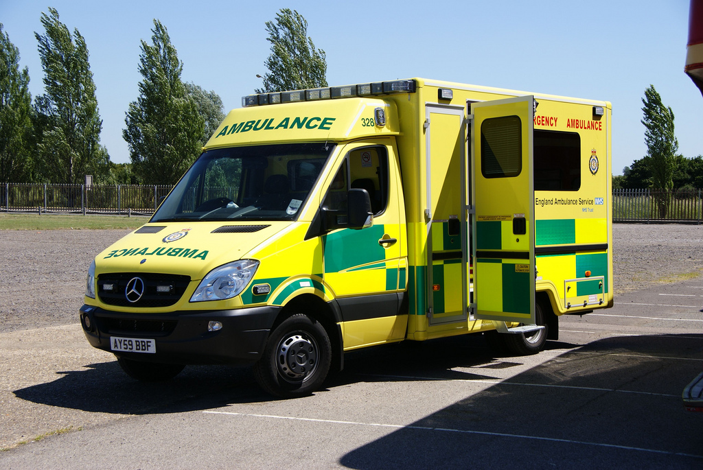 An ambulance of the East of England Ambulance Service Camera: Sony DSLR-A300 License on Flickr (2011-02-08): CC-BY-2.0 Flickr tags: England, GBR, geotagged, North Weald, North Weald Bassett, United Kingdom, Mercedes, Ambulance